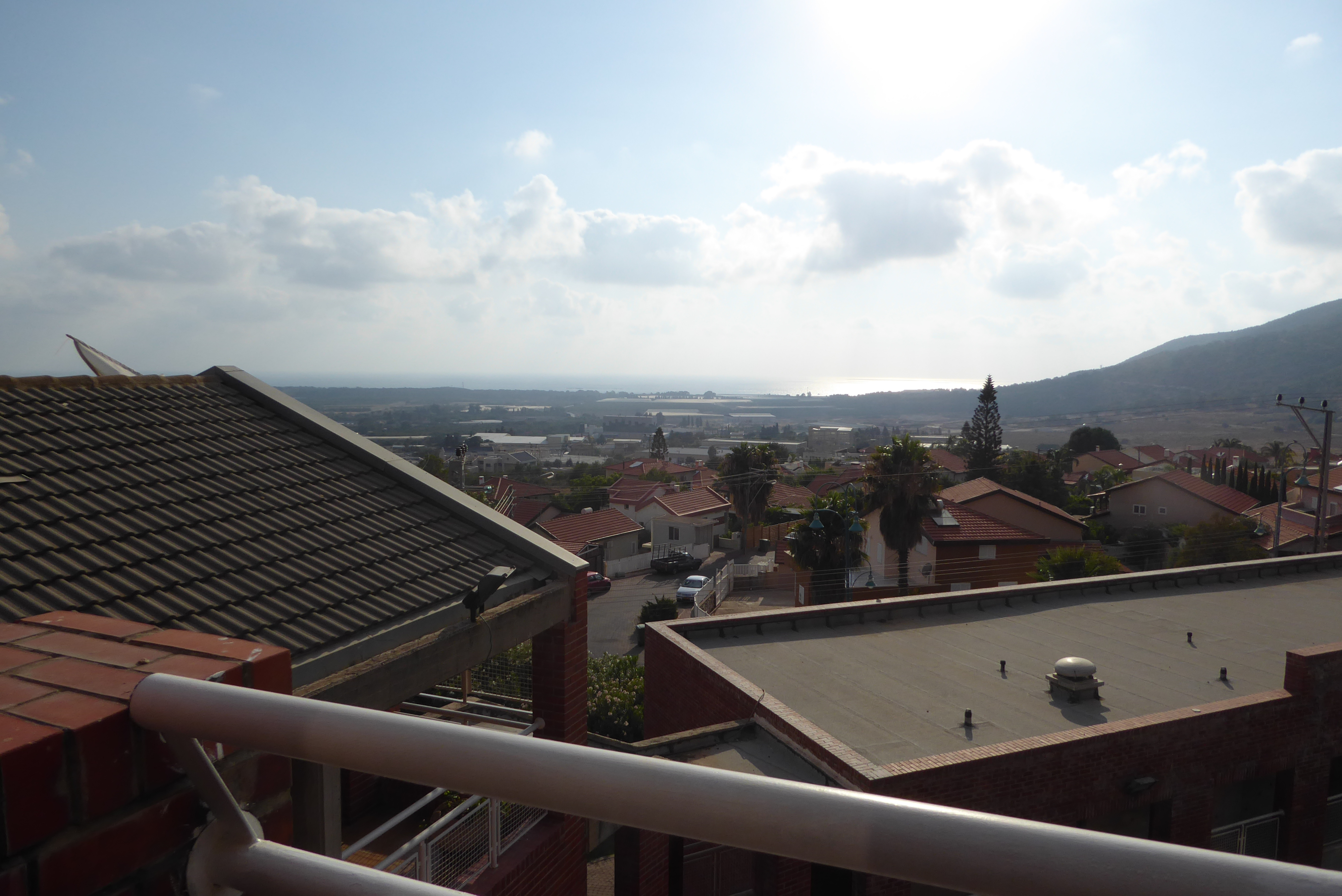 Shlomi (Hebrew: שְׁלוֹמִי) is a town in the Northern District of Israel.